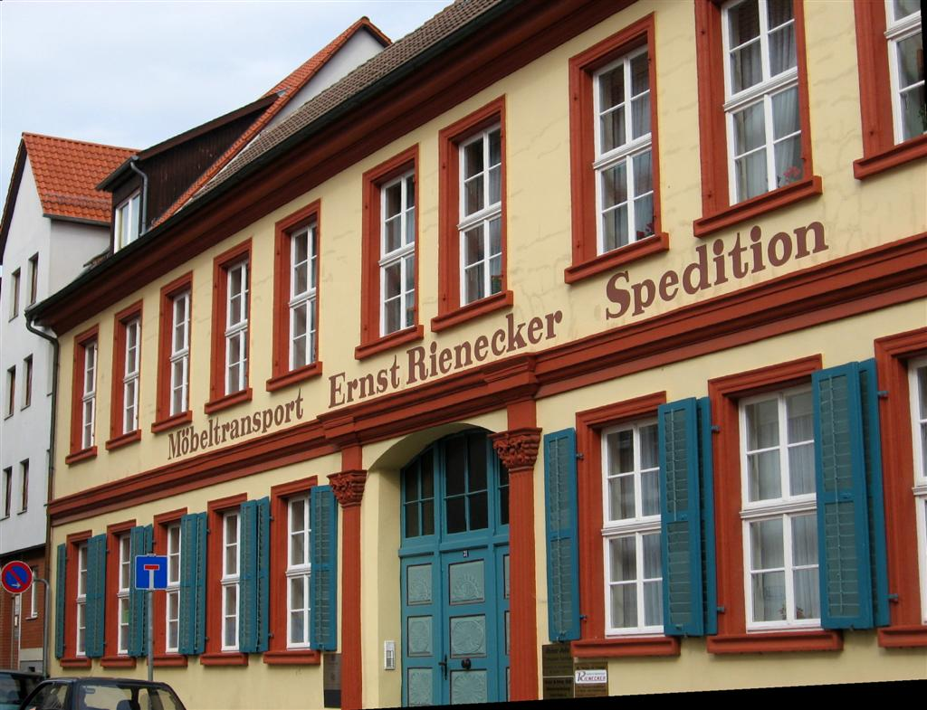 Building in Quedlinburg, Germany